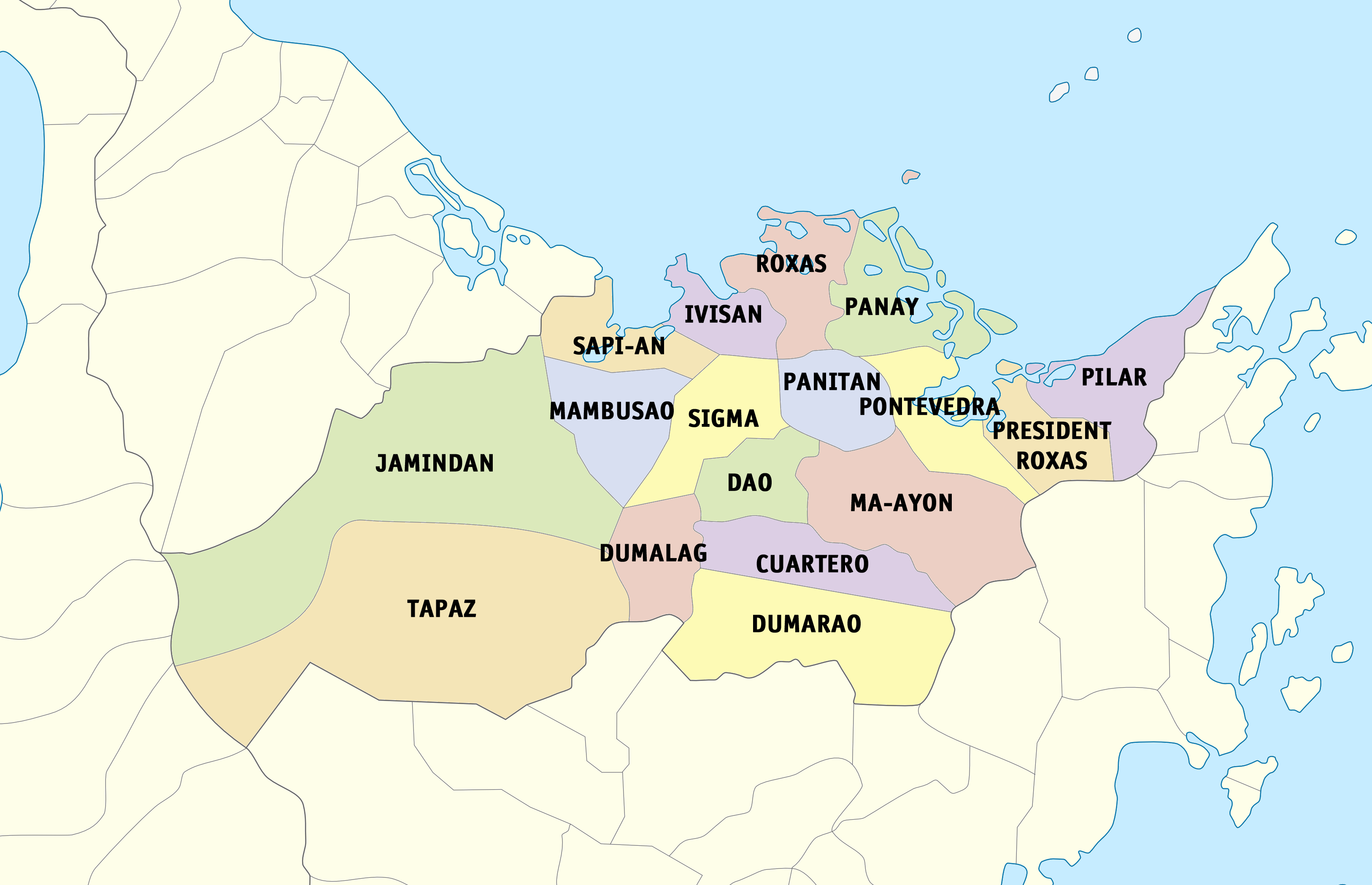 Political map of Capiz, Philippines